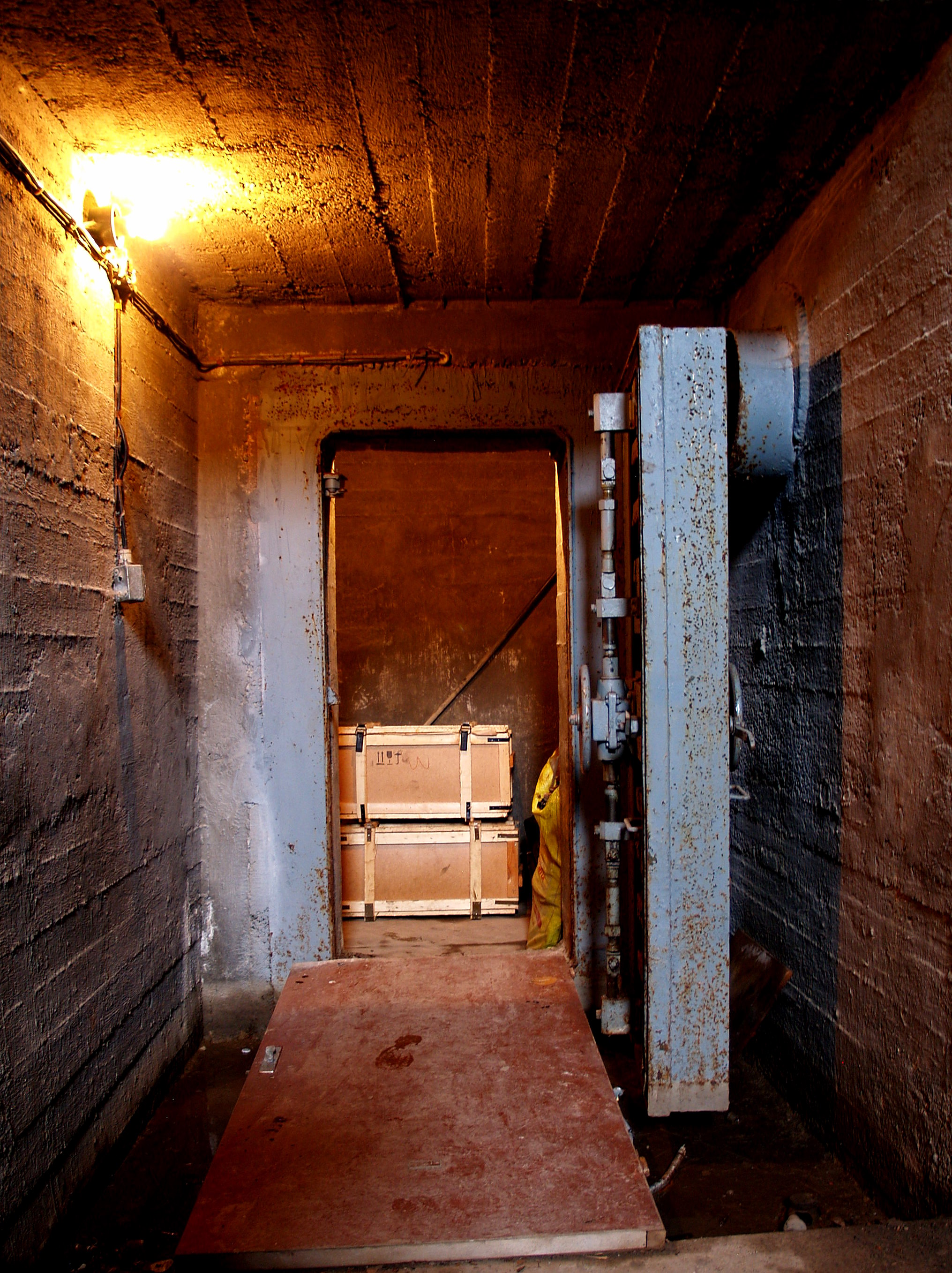 A-bomb shelter for the government of the Estonian Soviet Socialist Republic. One entrance. This shelter is located in Kose (Harju County) and there is plan to restore this as a museum.